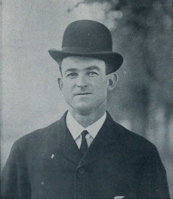 Photograph of Sport McAllister